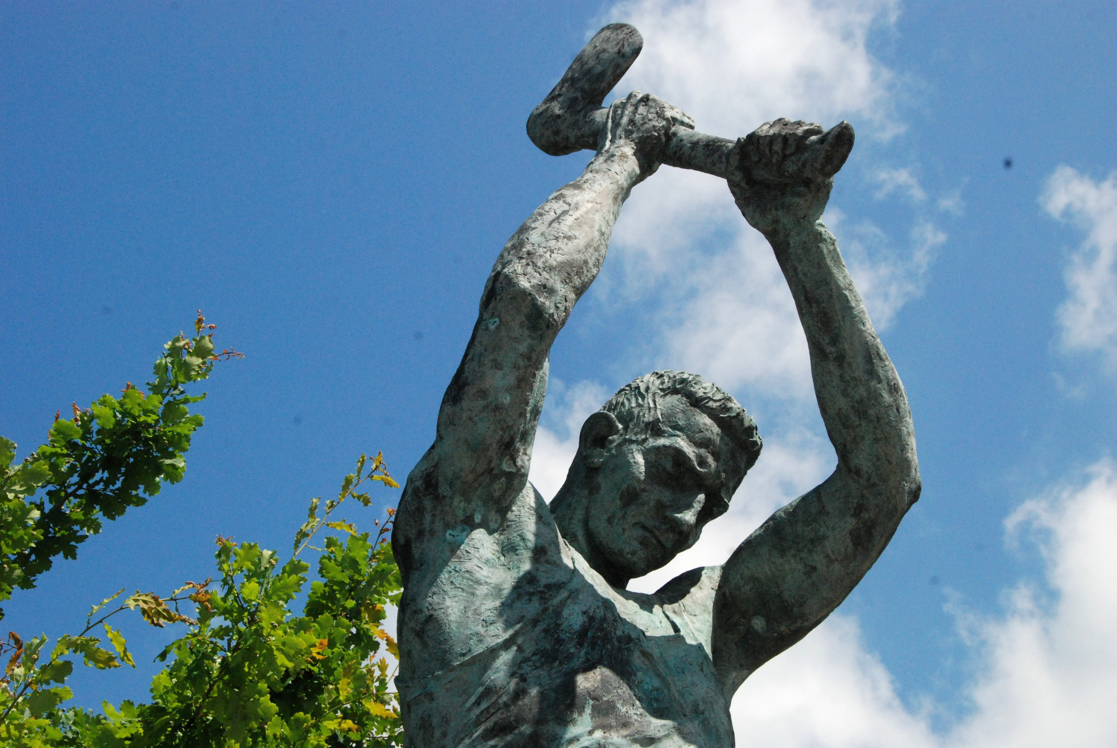 Detail of the sculture of Latasa woodchopper in Sunbilla (Navarre)